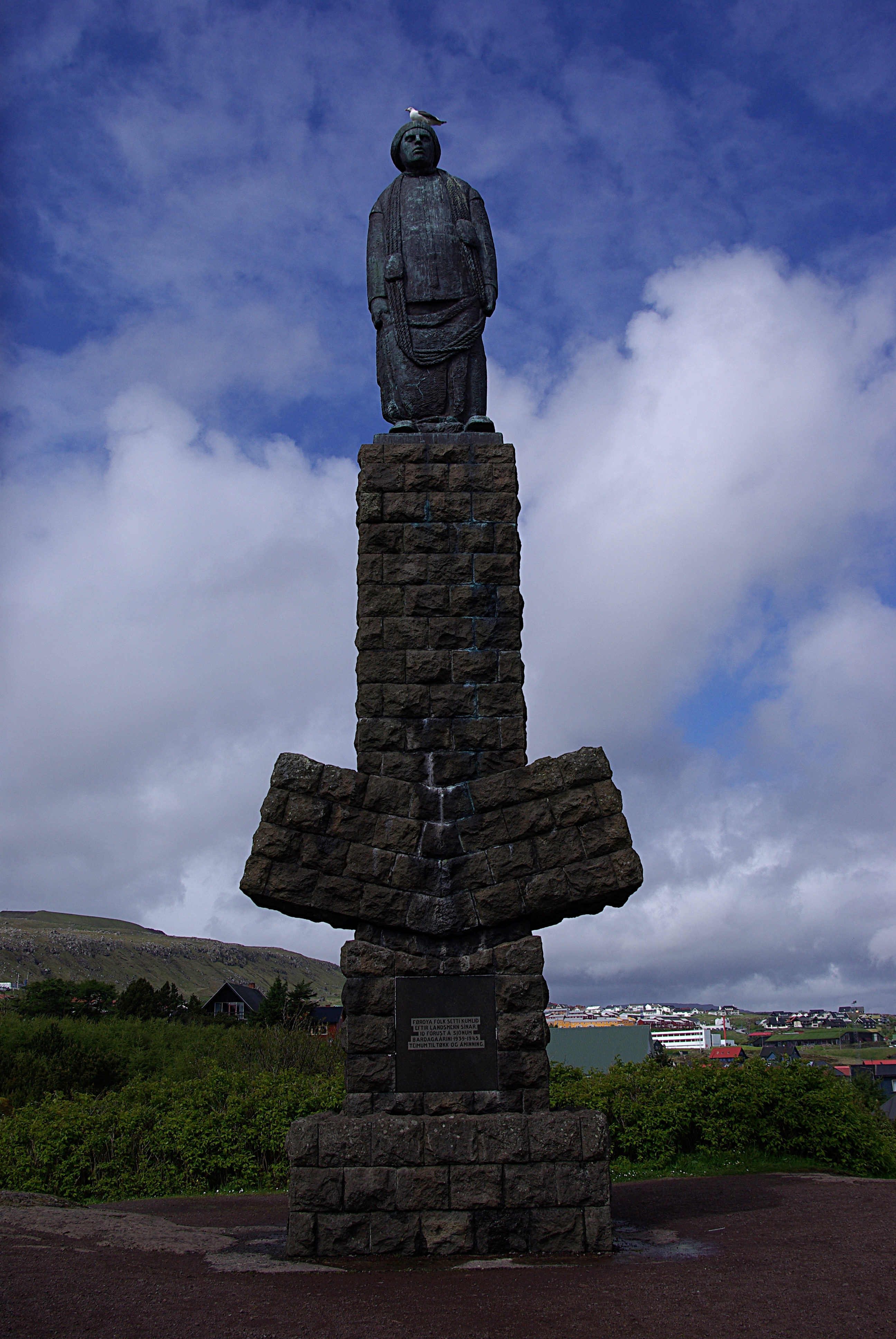 Torshavn, Färör. Memorial for the 132 killed fishermen of the Faroe Islands during World War II. This monument is situated in the park of Tórshavn